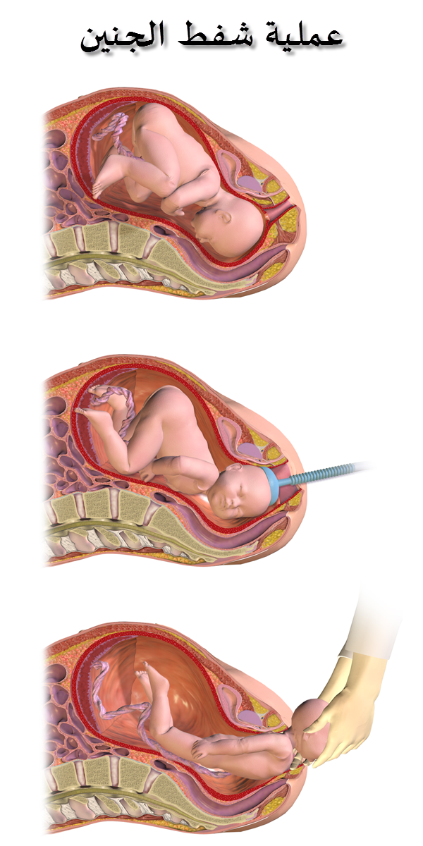 Vacuum-assisted Delivery